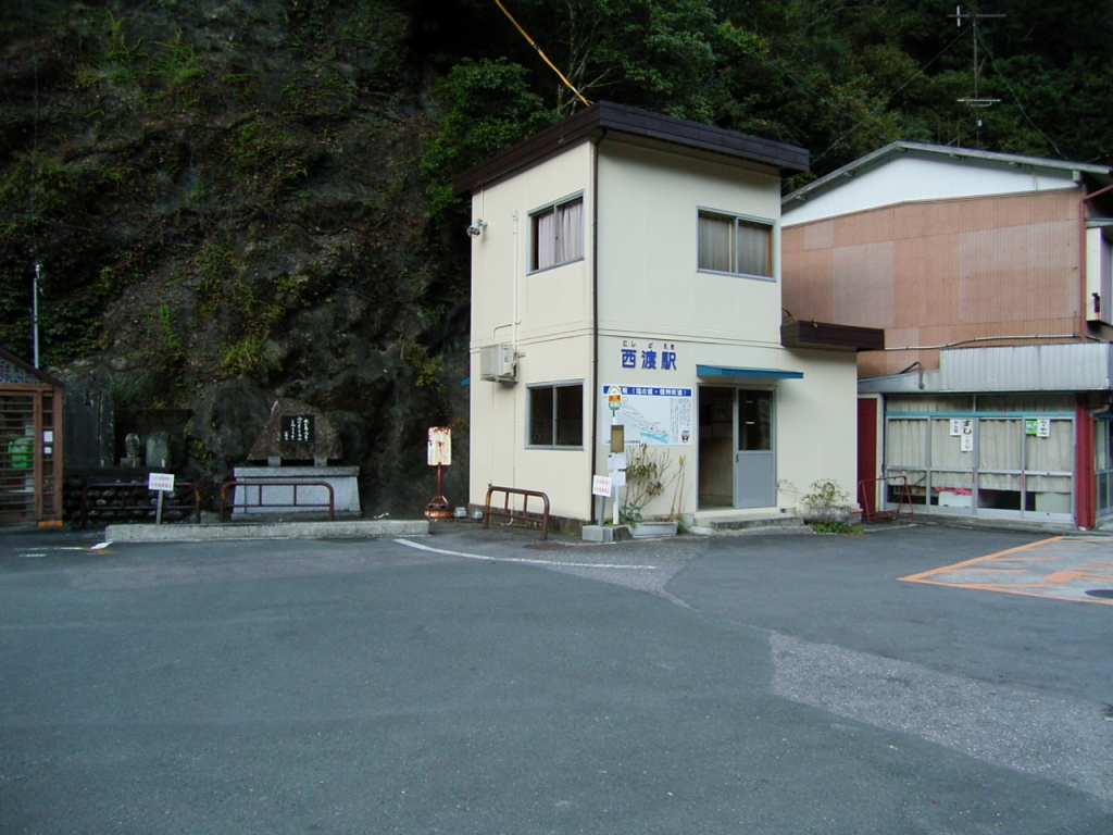 Entetsu Bus Nishido Bus Stop in Hamamatsu City, Shizuoka Prefecture, Japan